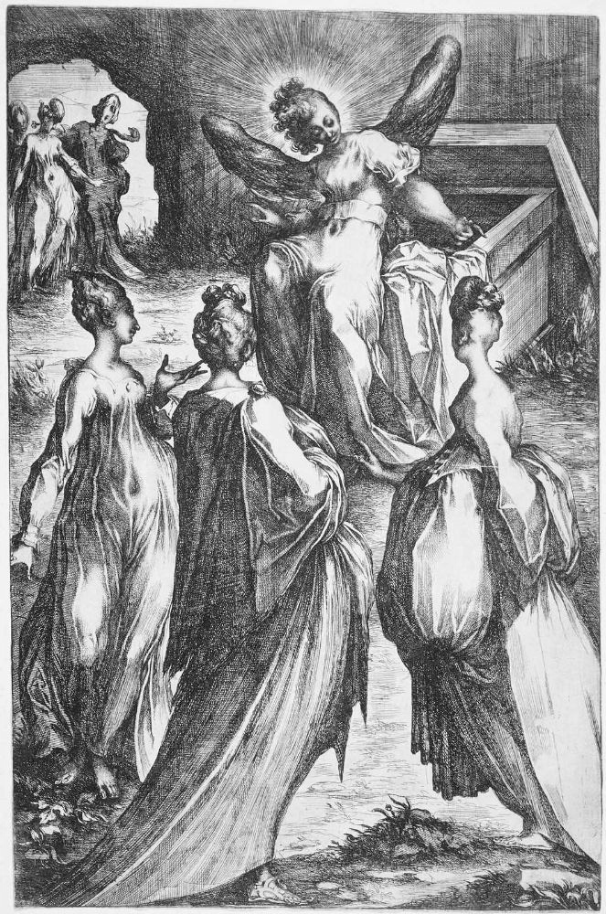 The Three Women at the Tomb about 1613 Jacques Bellange, French (Lorraine), active in 1595, died in 1616 Platemark: 44.2 x 28.7 cm (17 3/8 x 11 5/16 in.); Sheet: (cut within platemark) Etching and engraving, first state Classification: Prints Catalogue: Robert-Dumesnil 09; Walch 46; Reed-Worthen 62; first state Accession number: 40.119 Otis Norcross Fund